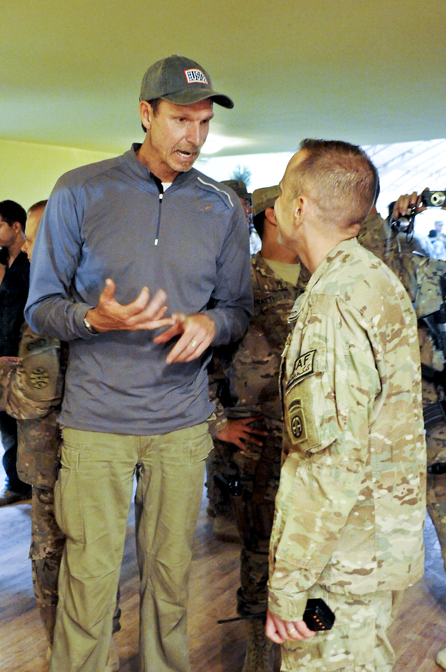 Major League baseball pitching superstar Randy "The Big Unit" Johnson talks with a Marine at Kandahar Airfield, Afghanistan, April 18, 2012, after the team of celebrities took photos with fans during the USO spring tour. DOD photo by U.S. Air Force Master Sgt. Chuck Marsh